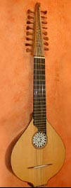 corsican cetera (Pigna type)